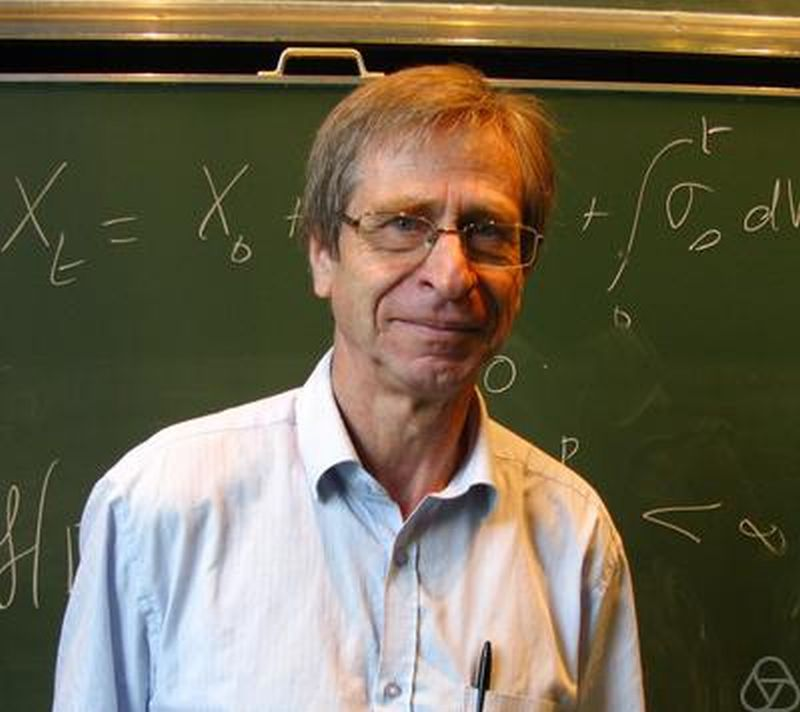 Jean Jacod, Oberwolfach 2011